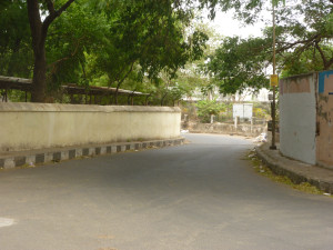 This is a Photo taken by me in General Collins Road Vepery Chennai